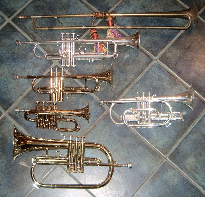 Six high brass instruments - From the top left: Baroque trumpet in D, modern trumpets in Bb and D (an octave higher than the Baroque instrument, since it is half its length), piccolo trumpet in high Bb, Flugelhorn in Bb; right: cornet in Bb. Maker details: Baroque tpt by Michael Laird (actually designed by ML, built by a student/colleague who was probably German), about 1978; Bb is a Vincent Bach Stradivarius (c. 1980); D and piccolo by Selmer Paris (c. 1981 and c. 1978); Flugelhorn by DEG, c. 1982; Cornet by Smith-Watkins, c. 2002.